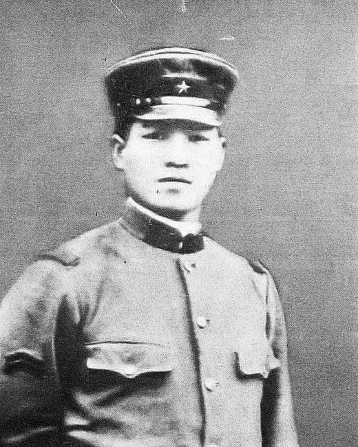 Takeji Eshita(Three Human Bombs)